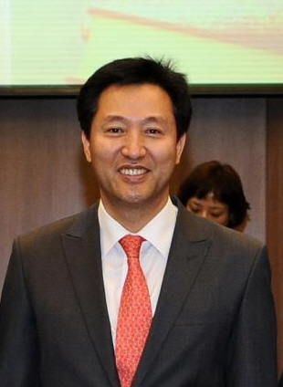 Oh Se-Hoon as Seoul Mayor of Seoul Special City, March 2011